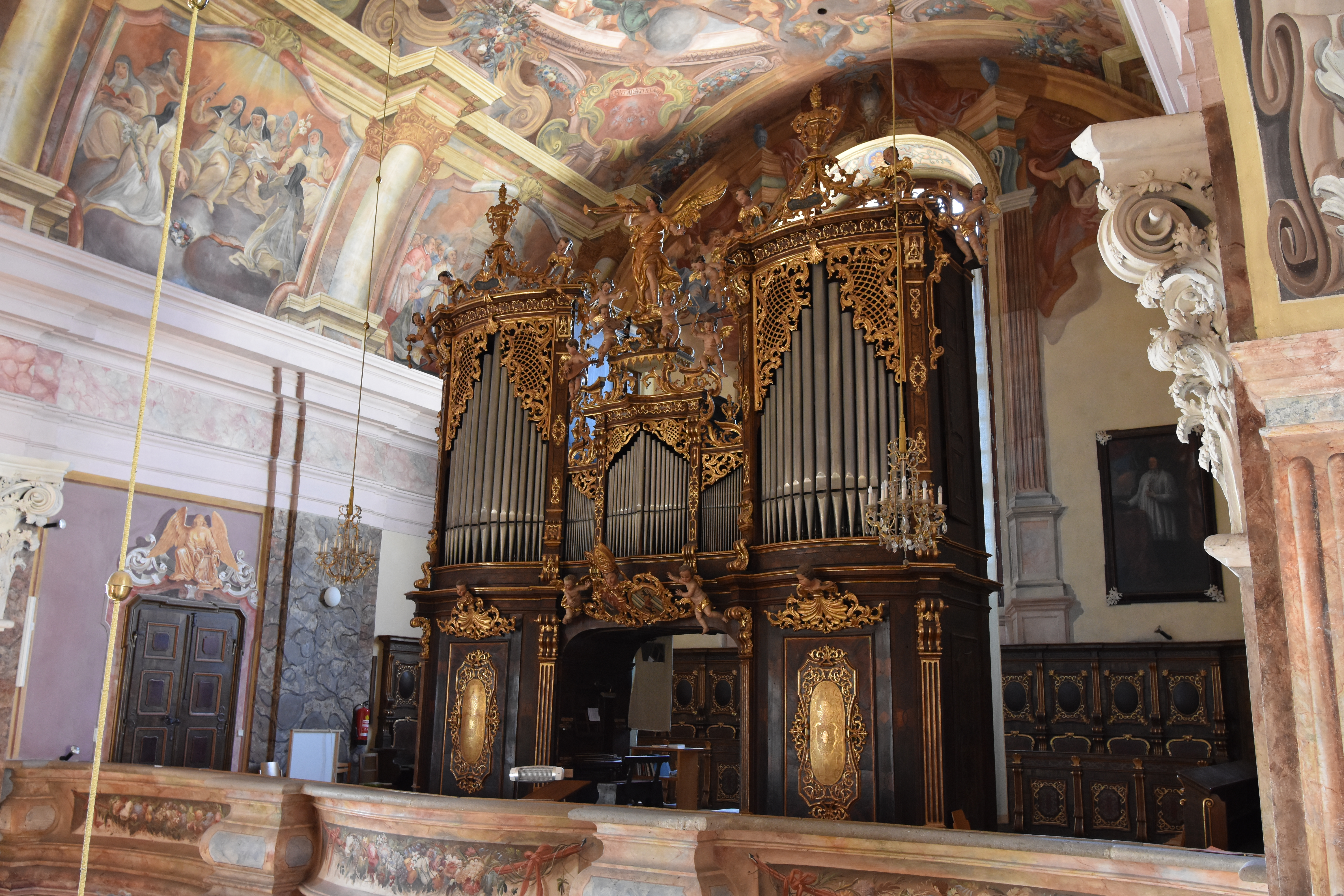 Stift Pöllau - Interior